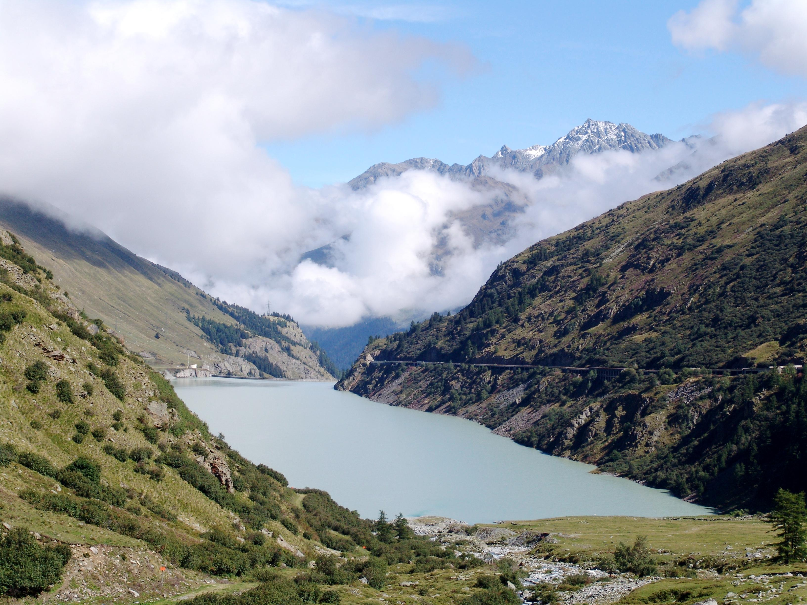 Lac des Toules, between Bourg St. Pierre and Great St. Bernard Pass, Valais